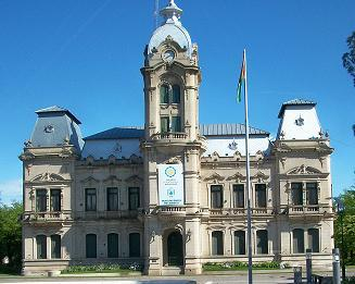 Goverment House Tres Arroyos City